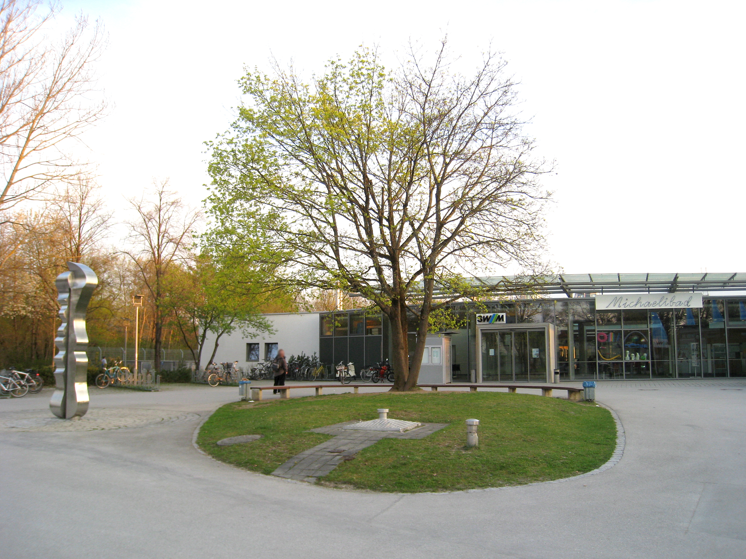 Michaelibad, Munich, entrance